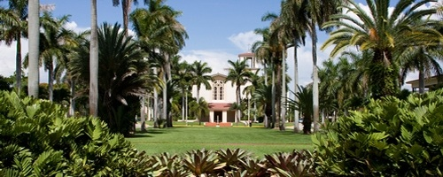 Panoramic view of Barry University chapel.